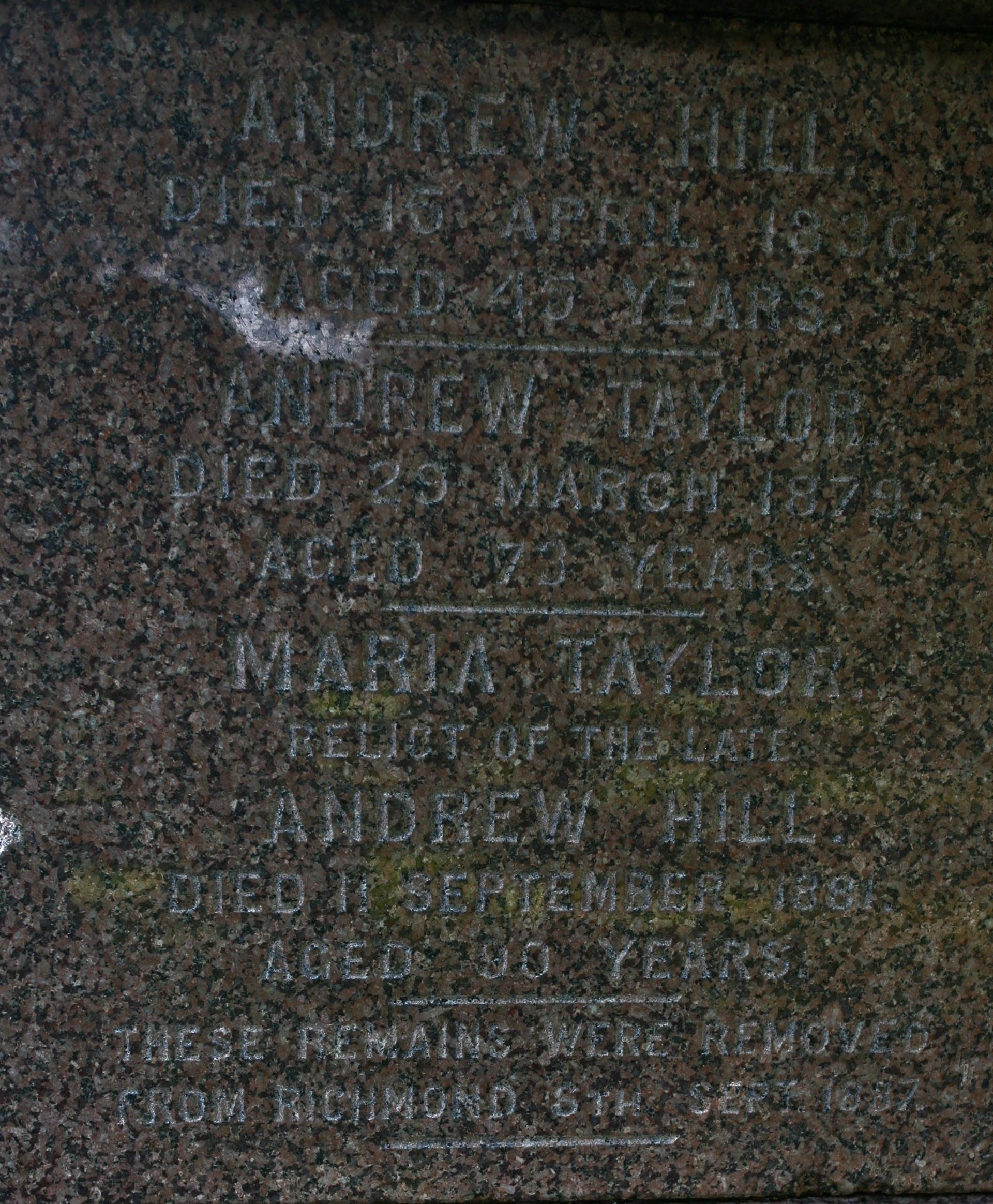 Picture of family marker for Maria Taylor (nee Woods, Hill), Andrew Hill & Andrew Taylor at Beechwood Cemetery, Ottawa on Malloch plot.